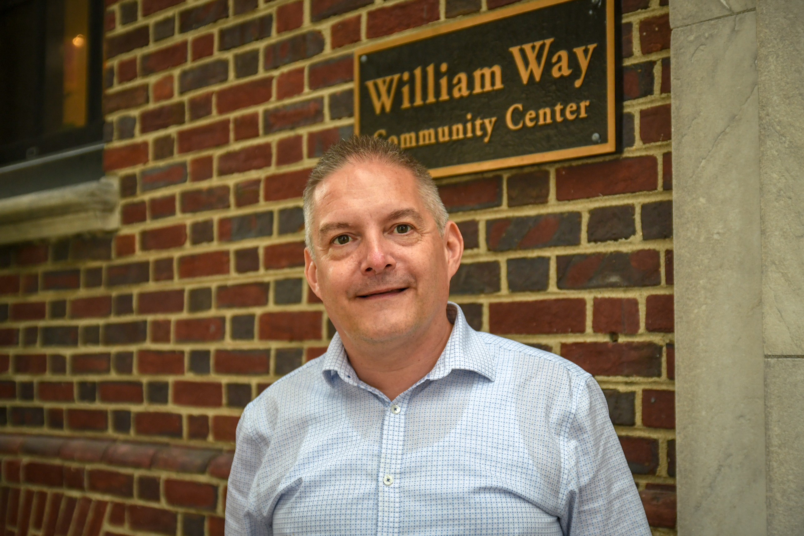 Chris Bartlett in front of the William Way LGBT Community Center